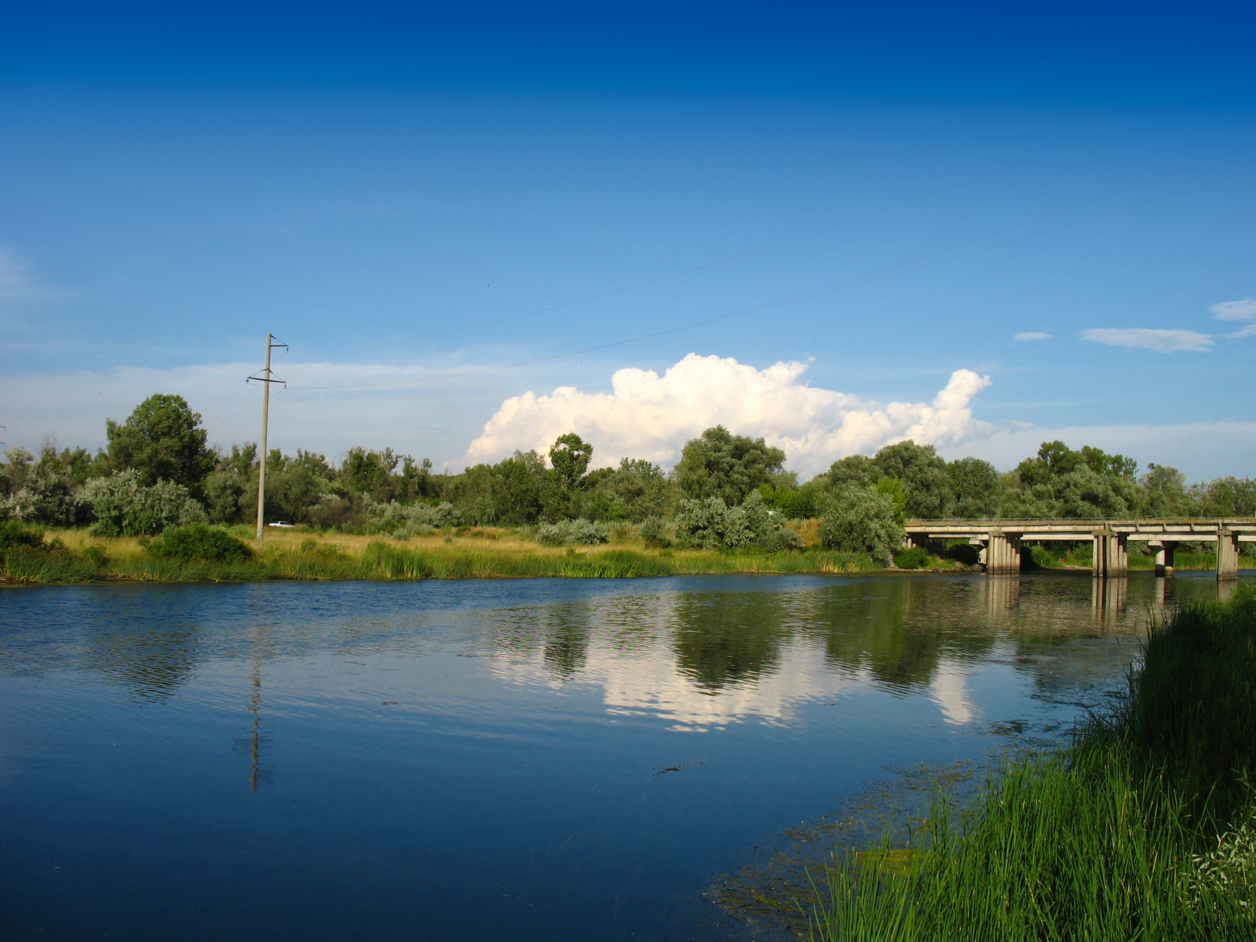 The Oril (Ukrainian: Оріль) is a river in Ukraine, a left tributary of the river Dnieper.